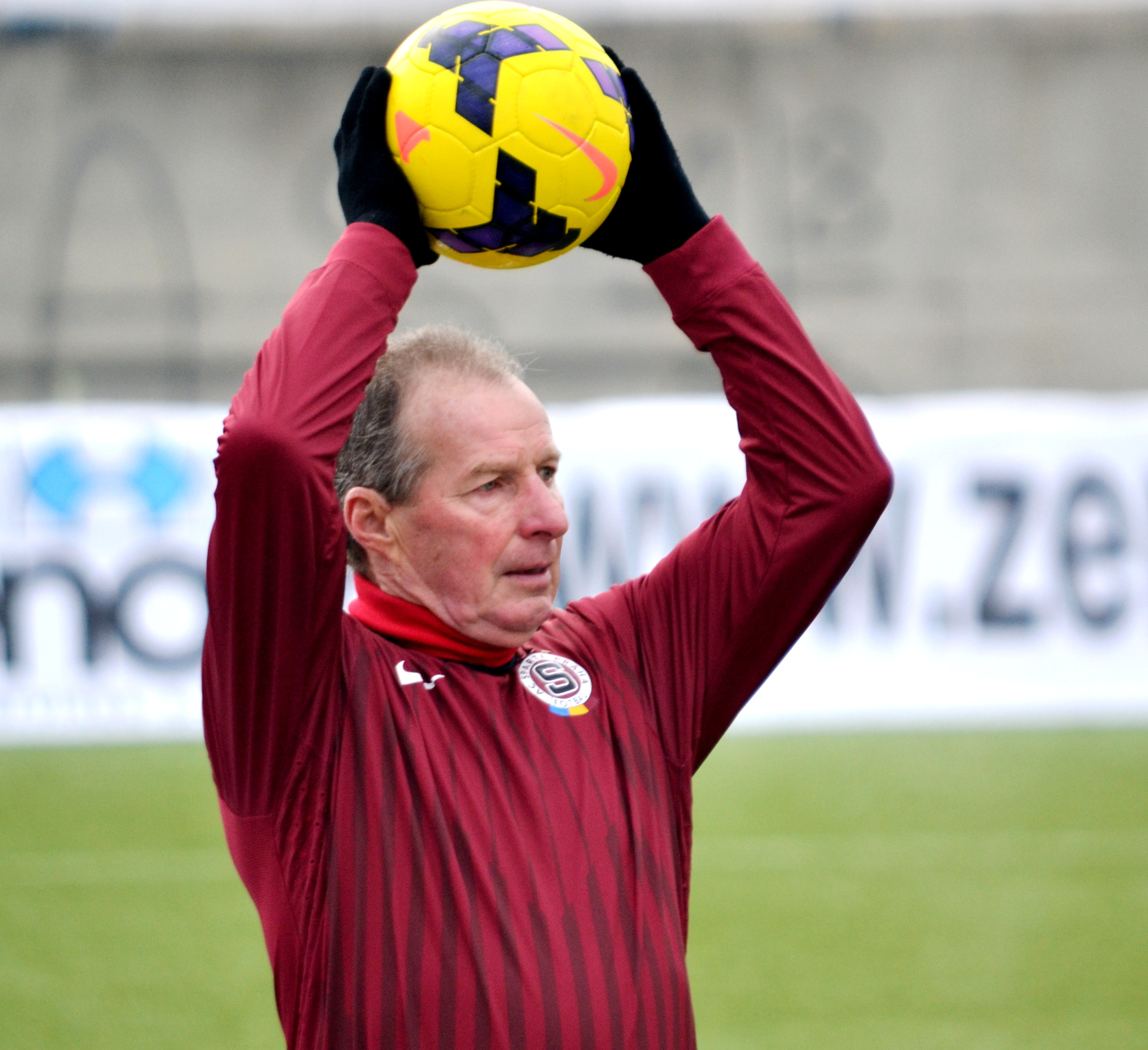 Zdeněk Caudr, Czech footballer